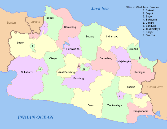 Map of West Java with its cities and regencies names